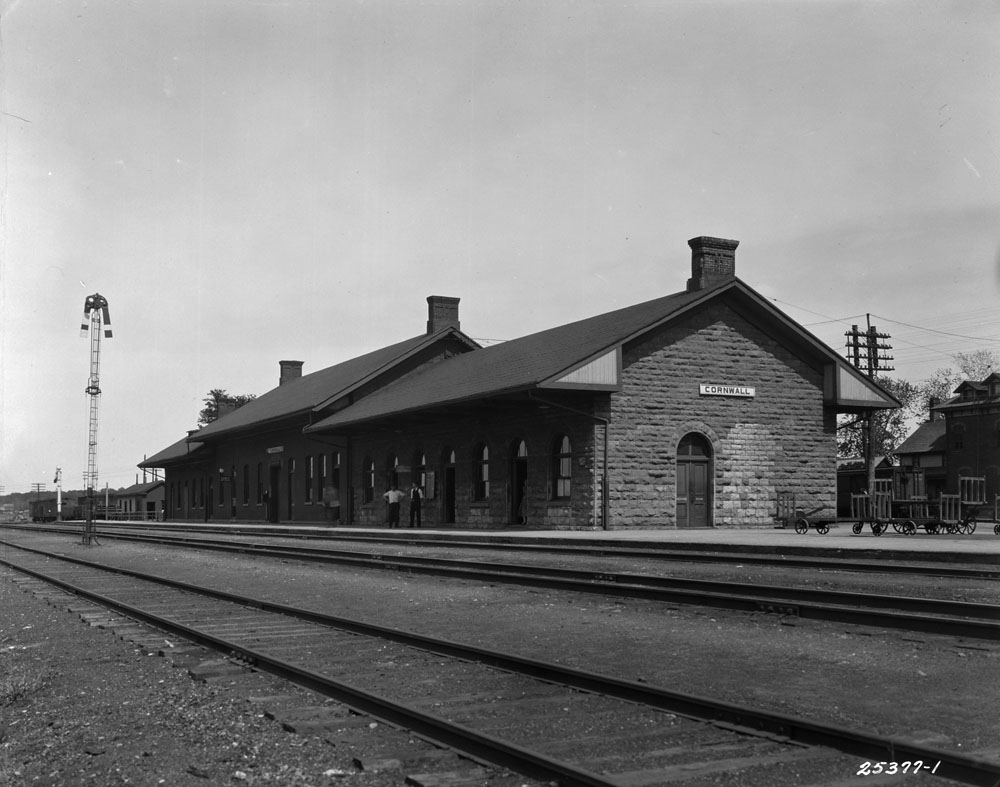 Railway station in Cornwall, Ontario